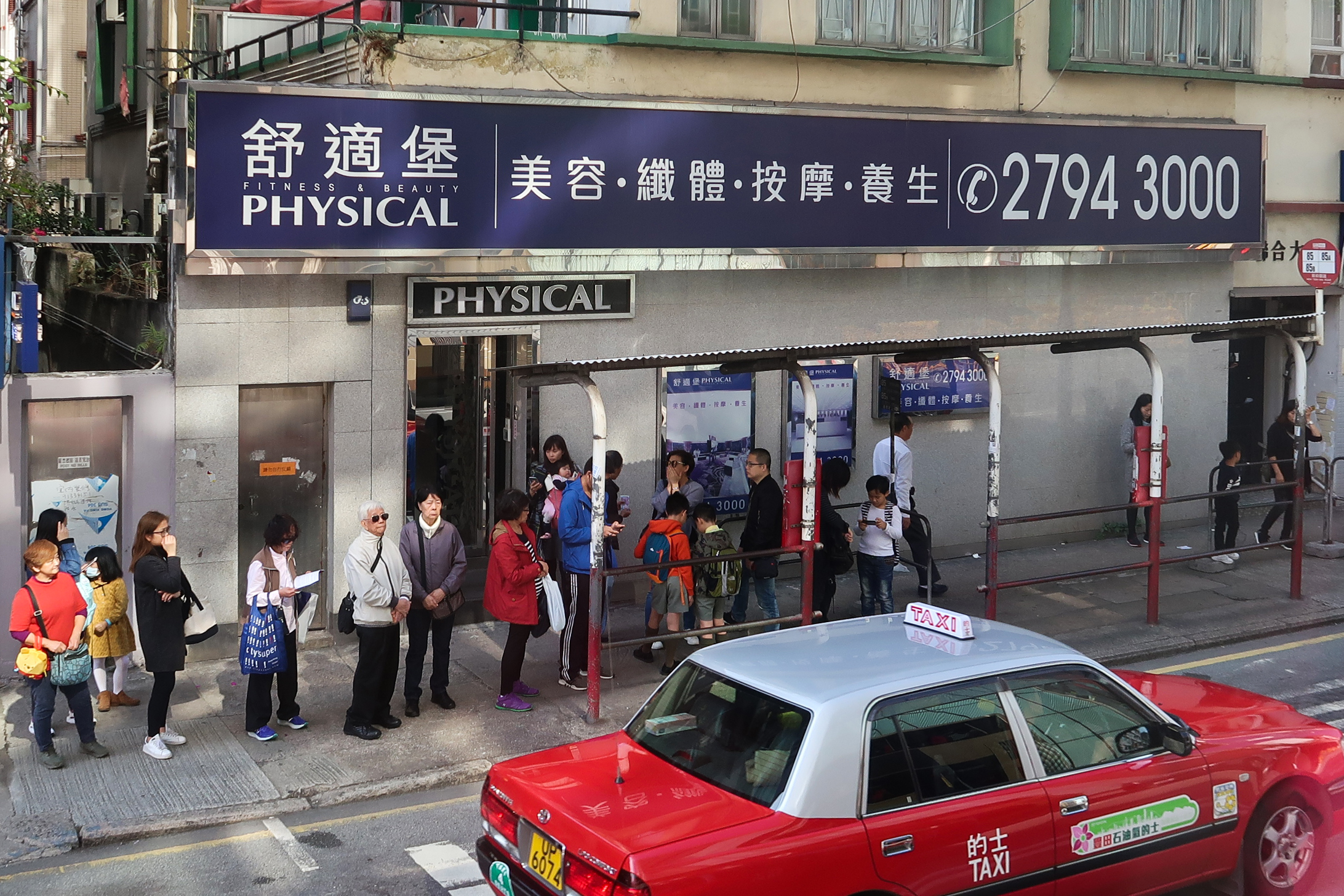 Physical in Kowloon City